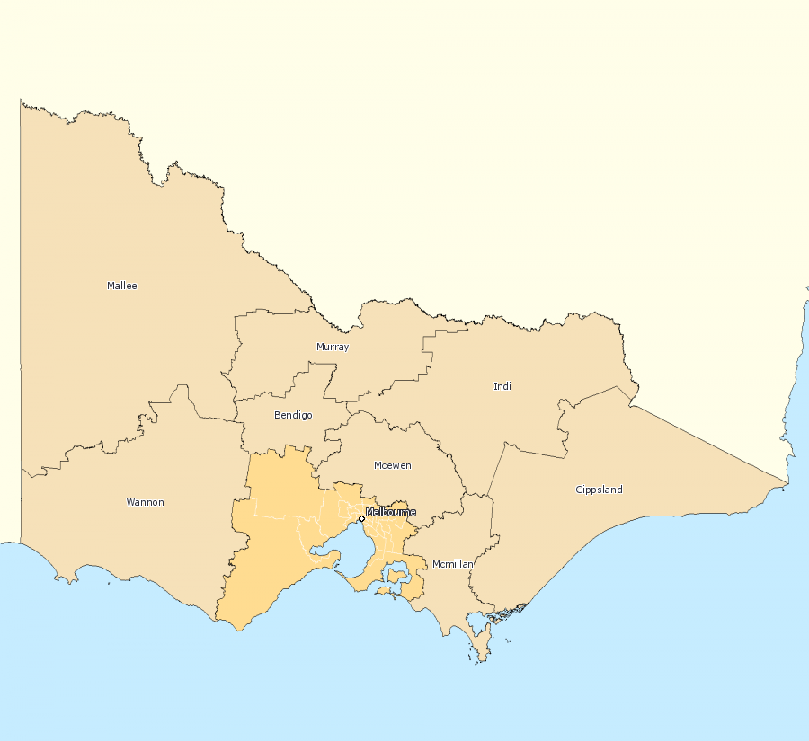 This image incorporates data that is: © Commonwealth of Australia (Australian Electoral Commission) 2009 Rest of Victoria divisions overview 2010